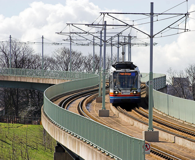 Sheffield Supertram descending the viaduct from Park Grange Croft The tram is running toward Sheffield City centre. The viaduct is on the border of the 3686 grid square and allows the tram to rise high above the City Centre and serve Park Grange en-route to Gleadless and Halfway (the terminus)